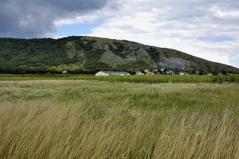 Hexenberg